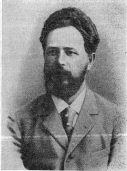 V. P. Obrazcov